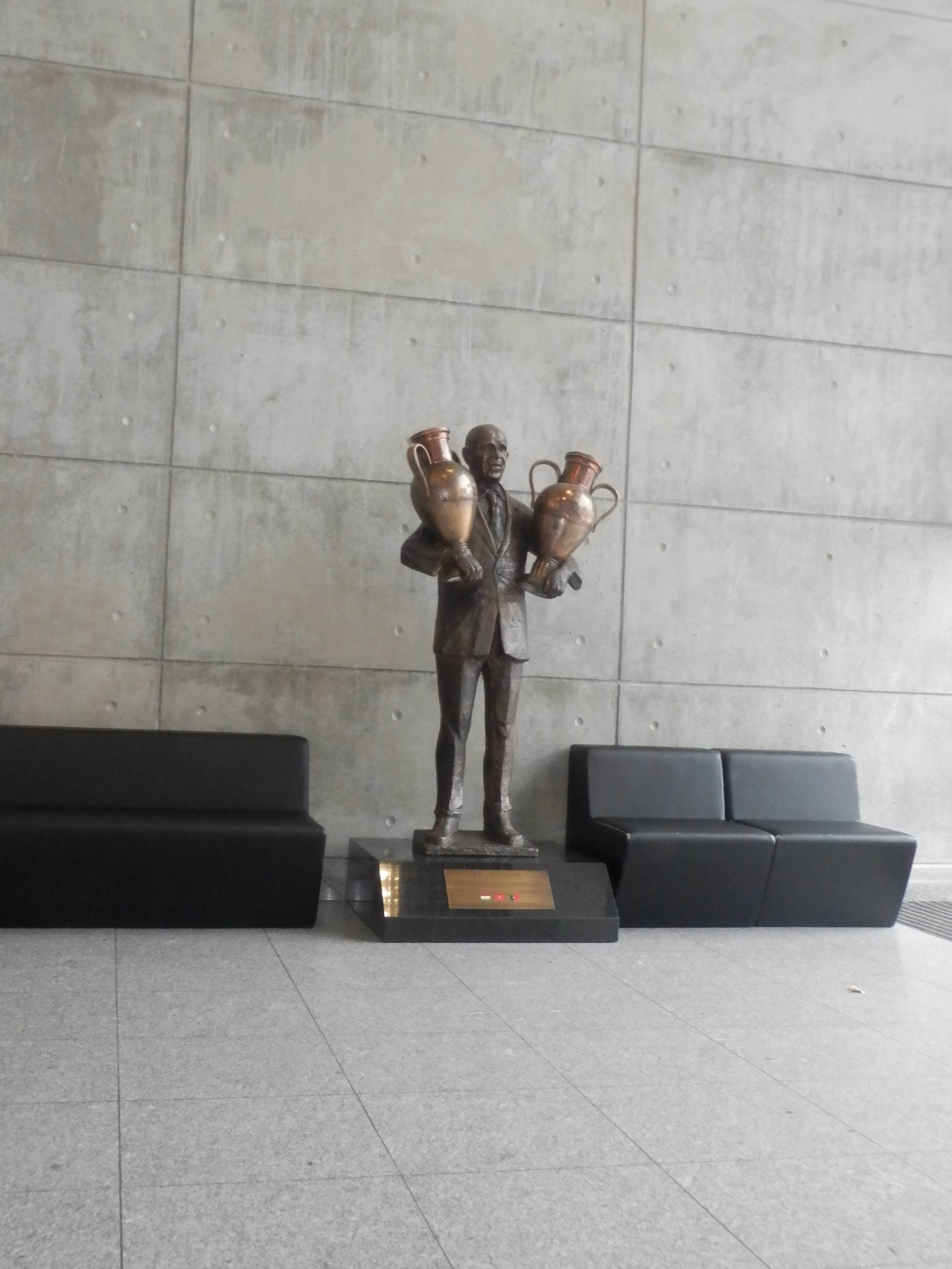 Ordered in 2014, holding the 2 European Cups